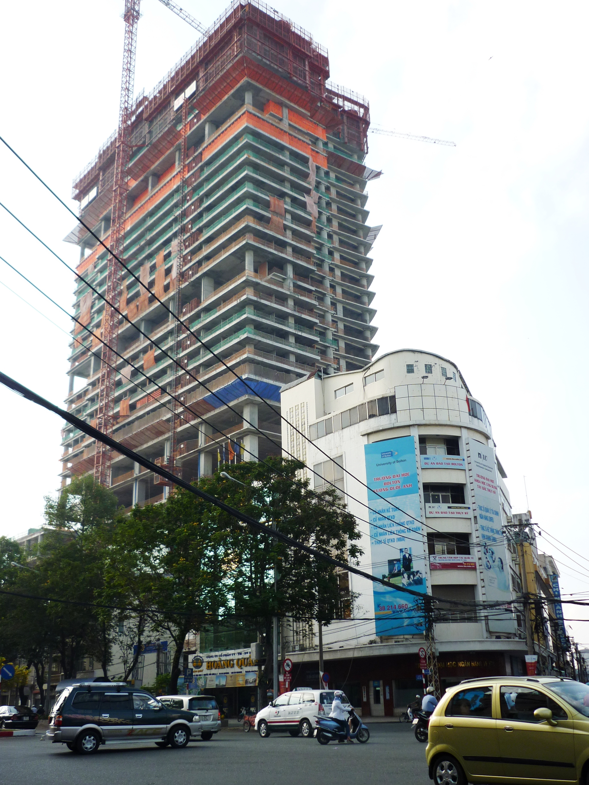 Bank University which formerly the US Embassy in 1960s is located at the corner of Ham Nghi and Ho Tung Mau streets